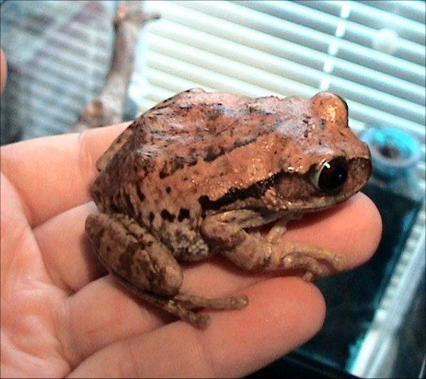 Photographer: User:Dawson